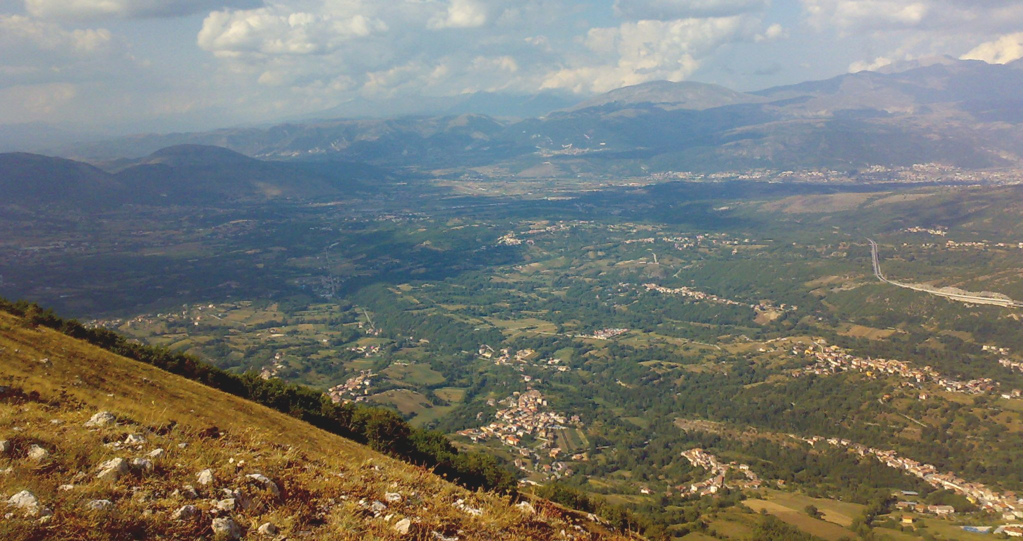 The Valley of Tornimparte as seen from Mount Ruella